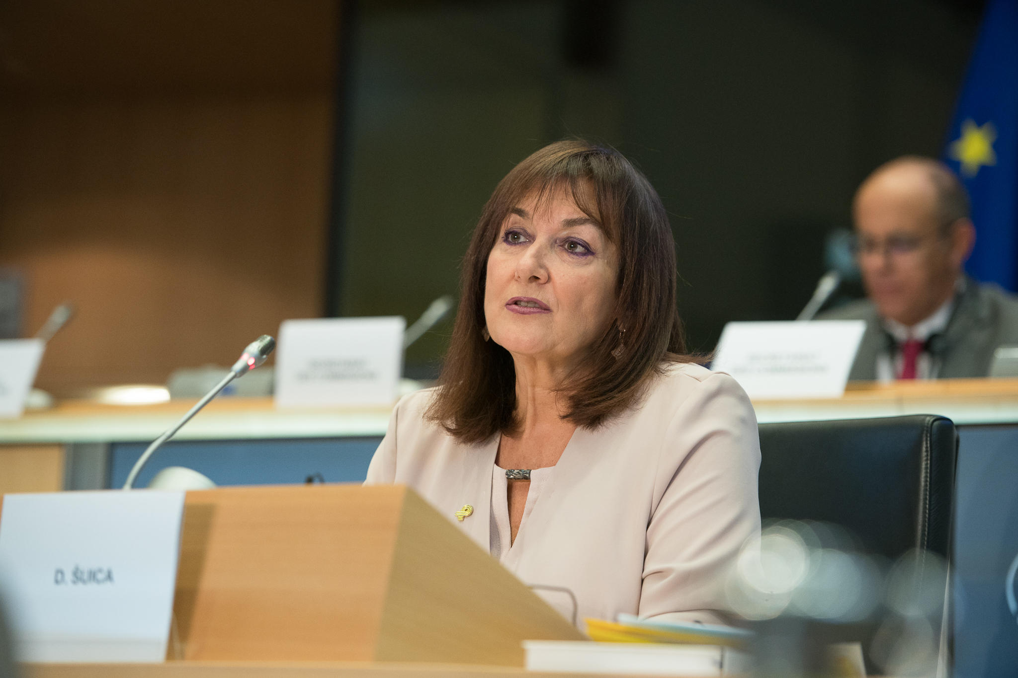 Before the European Parliament can vote the new European Commission led by Ursula von der Leyen into office, parliamentary committees will assess the suitability of commissioners-designate. On 23-26 May, more than 200,000,000 people in 28 EU countries went to the polls to elect members of the European Parliament, giving them a strong democratic mandate, including voting into office the new European Commission and examining the competencies and abilities of its commissioners-designate. Elected members of the European Parliament will also listen to their ideas and will assess their willingness to take concrete actions on the issues that Europeans care about. Each candidate commissioner is invited for a live-streamed, three-hour hearing in front of the committee or committees responsible for their proposed portfolio. The hearings will take place between Monday 30 September and Tuesday 8 October. This photo is free to use under Creative Commons license CC-BY-4.0 and must be credited: "CC-BY-4.0: © European Union 2019 – Source: EP". No model release form if applicable. For bigger HR files please contact: webcom-flickr(AT)